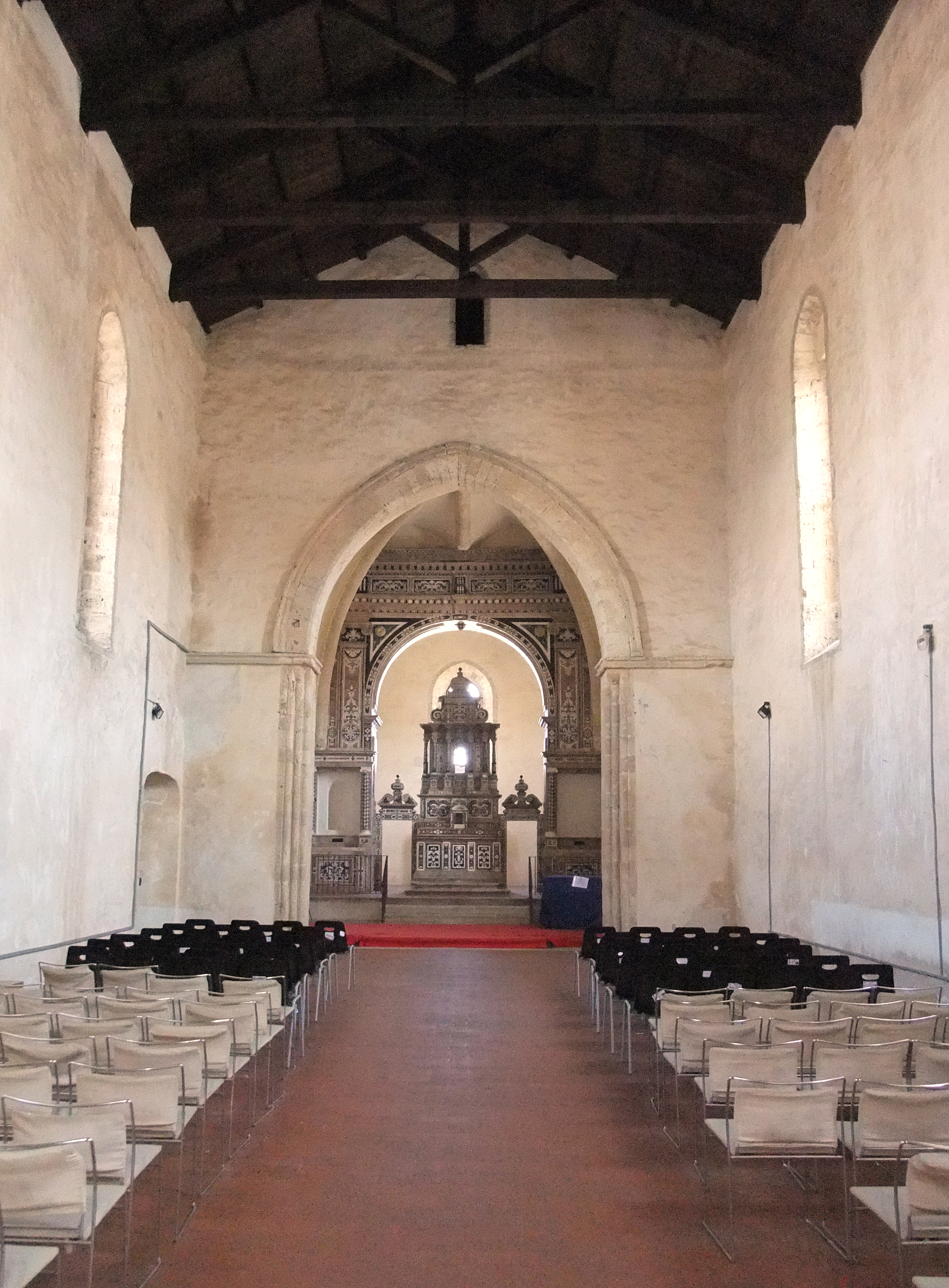 Calabria is the southernmost region of the Italian peninsula. Interior of church San Francesco in Gerace (Reggio Calabria).